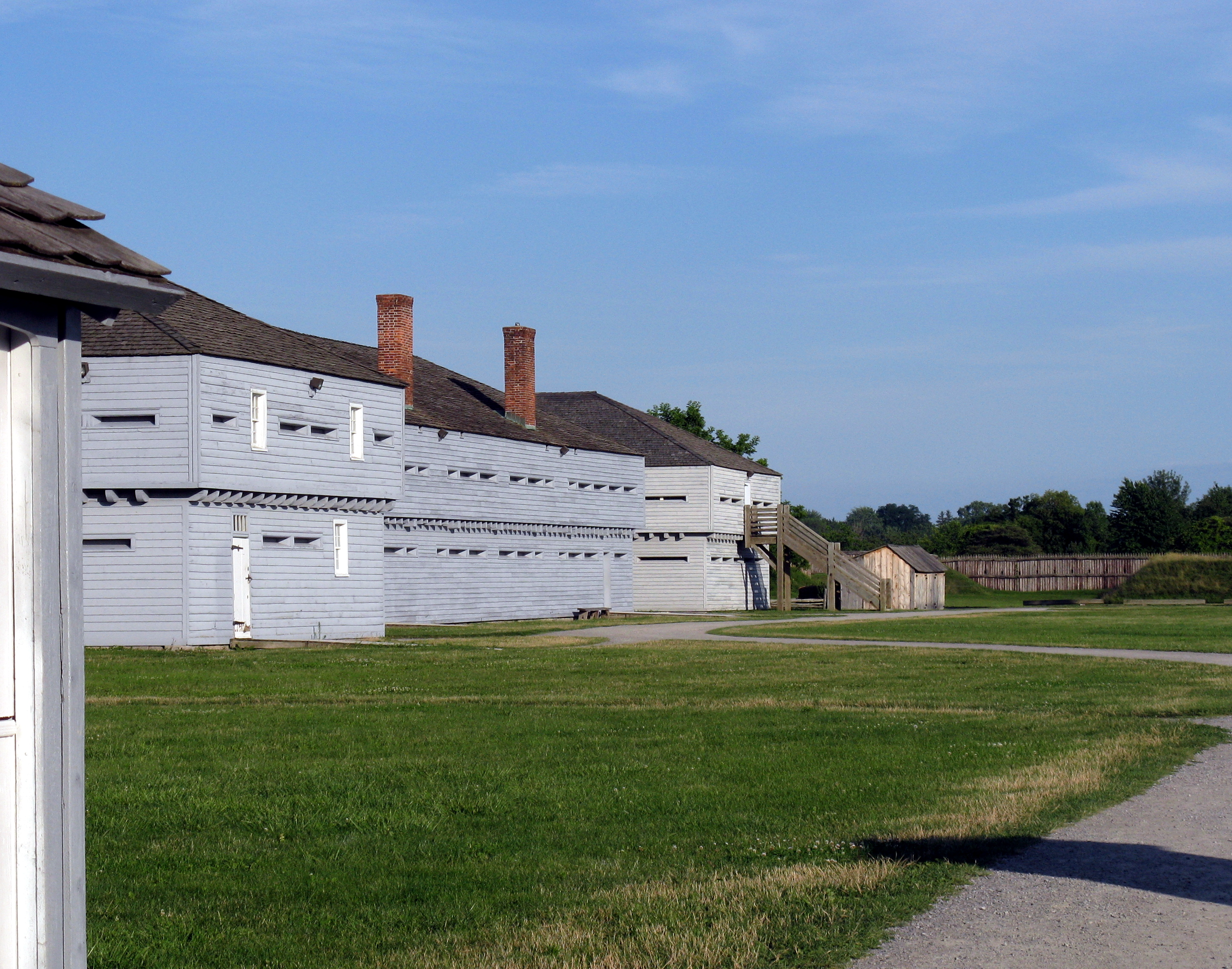 Fort George in Niagara-on-the-Lake, Ontario.